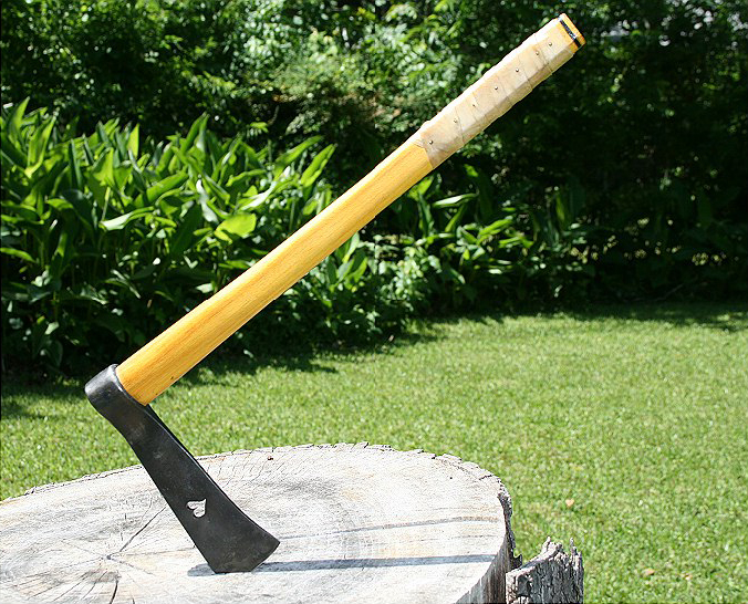 Traditional tomahawk by Steve Opperman